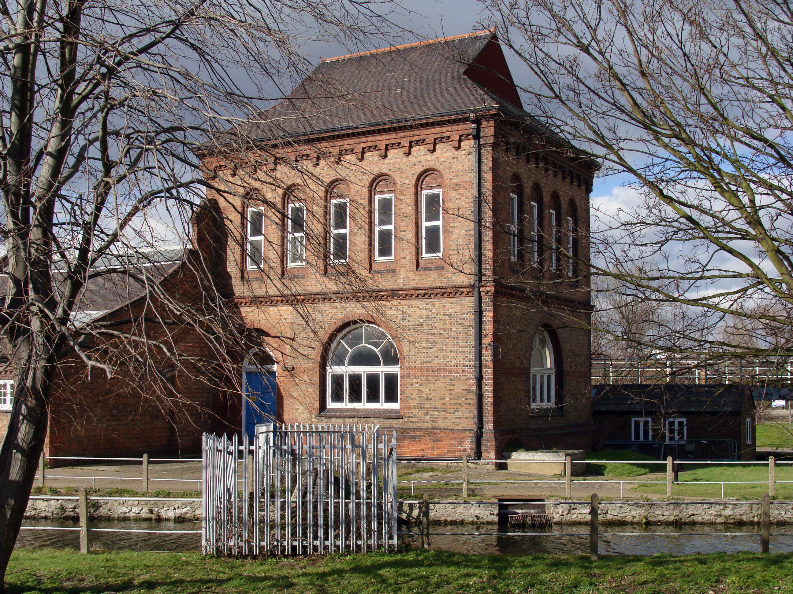 Pump house, one of two, at Walthamstow Reservoirs